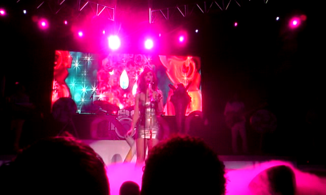 Katy Perry performing "Not Like the Movies" in Budapest on October 1, 2010.